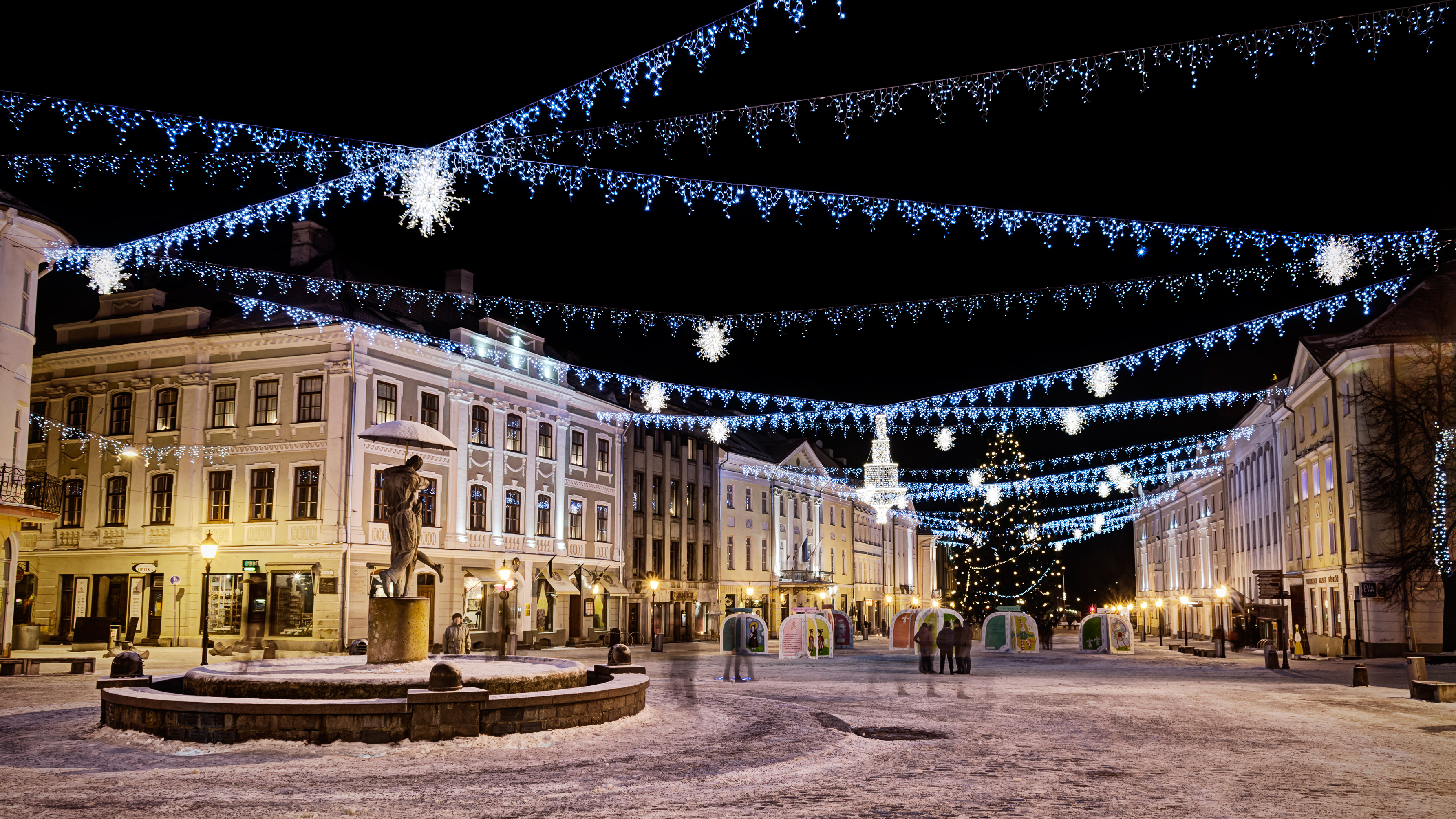 Tartu town hall square in christmas decorations. December 2012